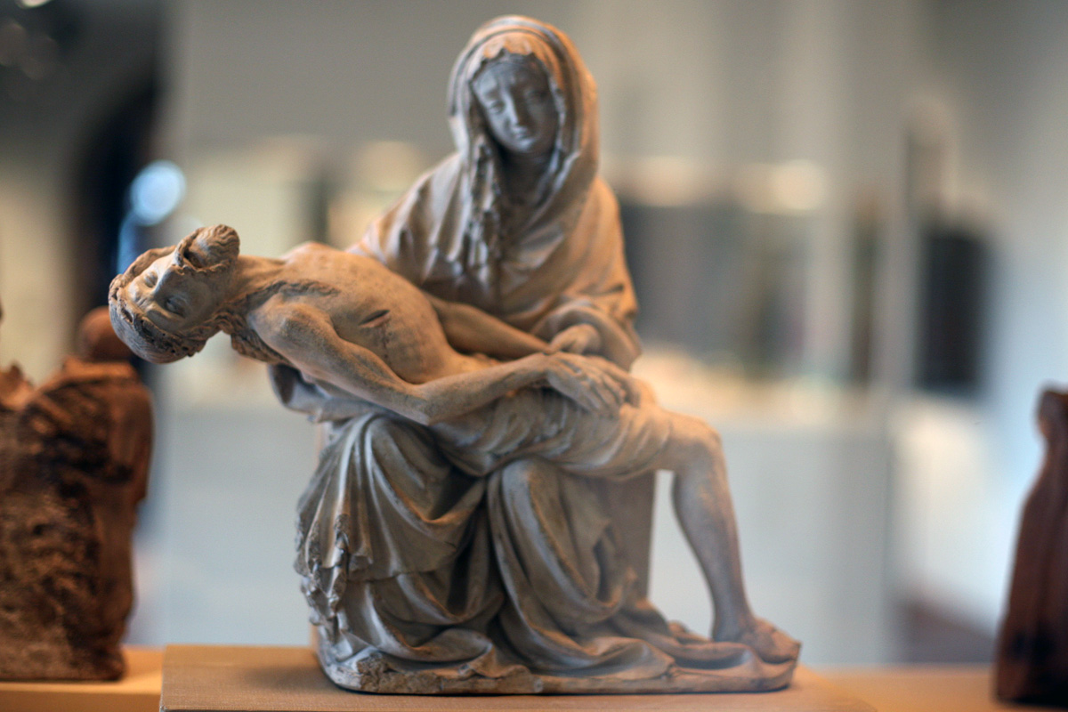 Pietà (Vesperbild), ca. 1400 Bohemian Limestone with polychrome highlight; 15 x 15 3/8 x 5 1/2 in. (38.1 x 39.1 x 14.0 cm) The Metropolitan Museum of Art, New York, The Cloisters Collection, 2001 (2001.78) View at the Metropolitan Museum of Art website Wikipedia Loves Art at the Metropolitan Museum of Art This photo of item # 2001.78 at the Metropolitan Museum of Art was contributed under the team name "shooting_brooklyn" as part of the Wikipedia Loves Art project in February 2009. Metropolitan Museum of Art The original photograph on Flickr was taken by shooting brooklyn—please add a comment to the original Flickr page whenever a use has been made on Wikipedia or another project. Project galleries on Flickr: this institution, this team